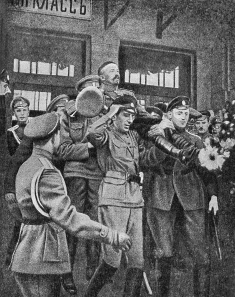 Russian general Lavr Kornilov greeted by his officers, 1 July 1917